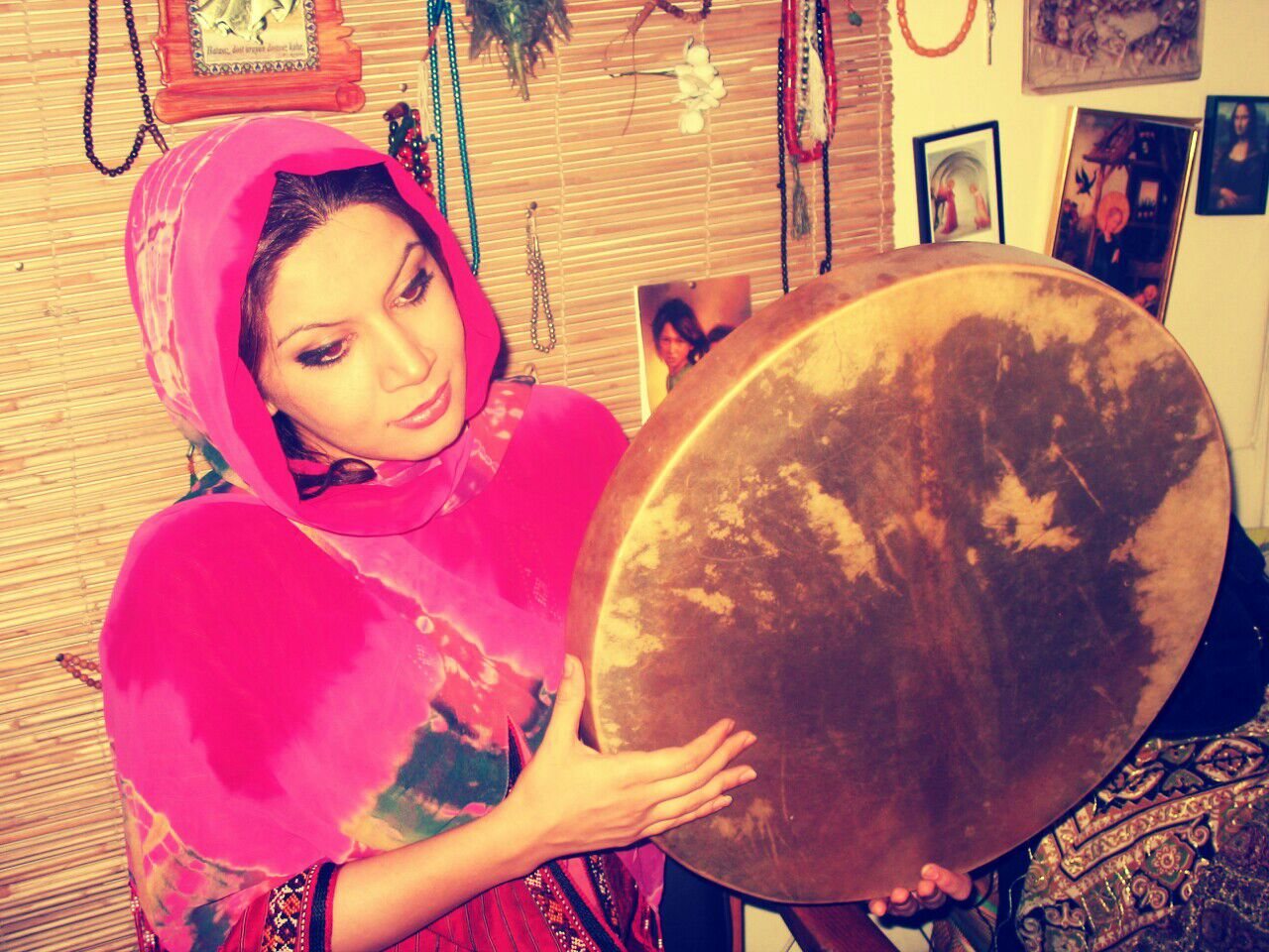 Asieh Ahmadi (Iranian Musician)